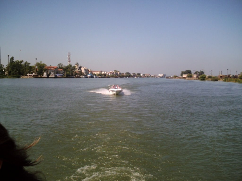 sulina town 2